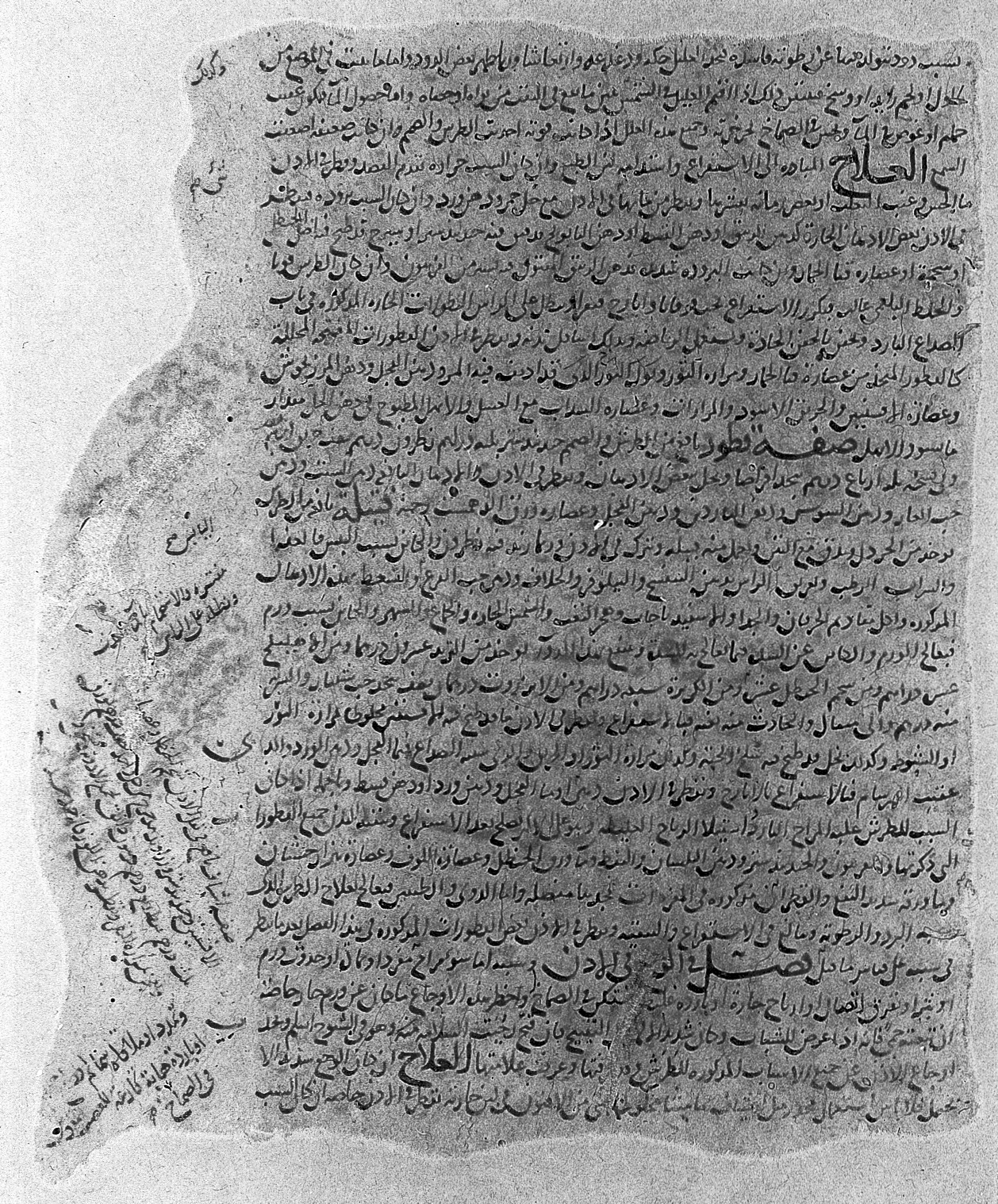 Text. Asian Collection Keywords: Rhazes